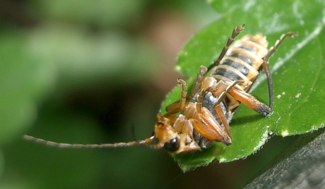 Description: Cantharis nigricans